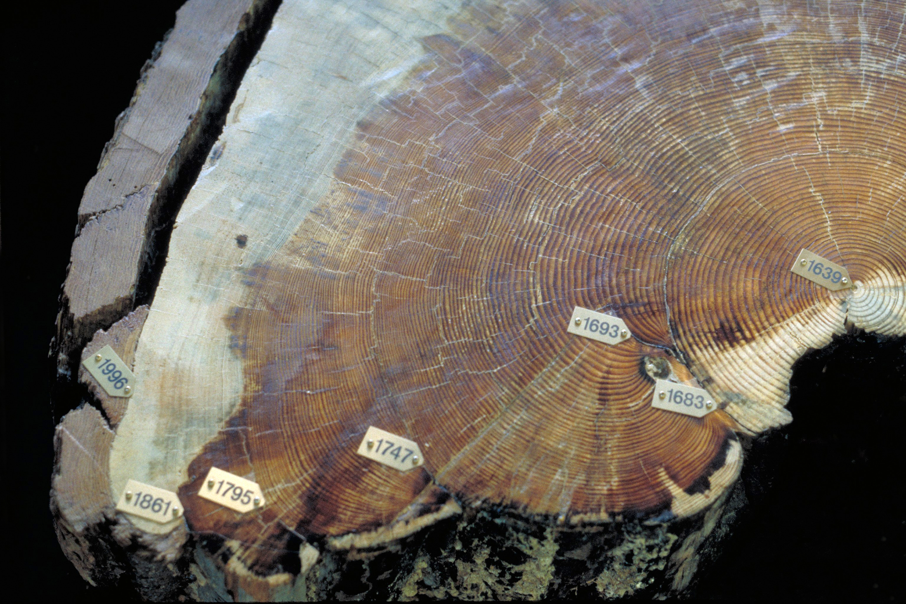 Crosscut of a 357 year-old Pinus ponderosa tree, with five fire scars: 1683, 1693, 1747, 1795, and 1861